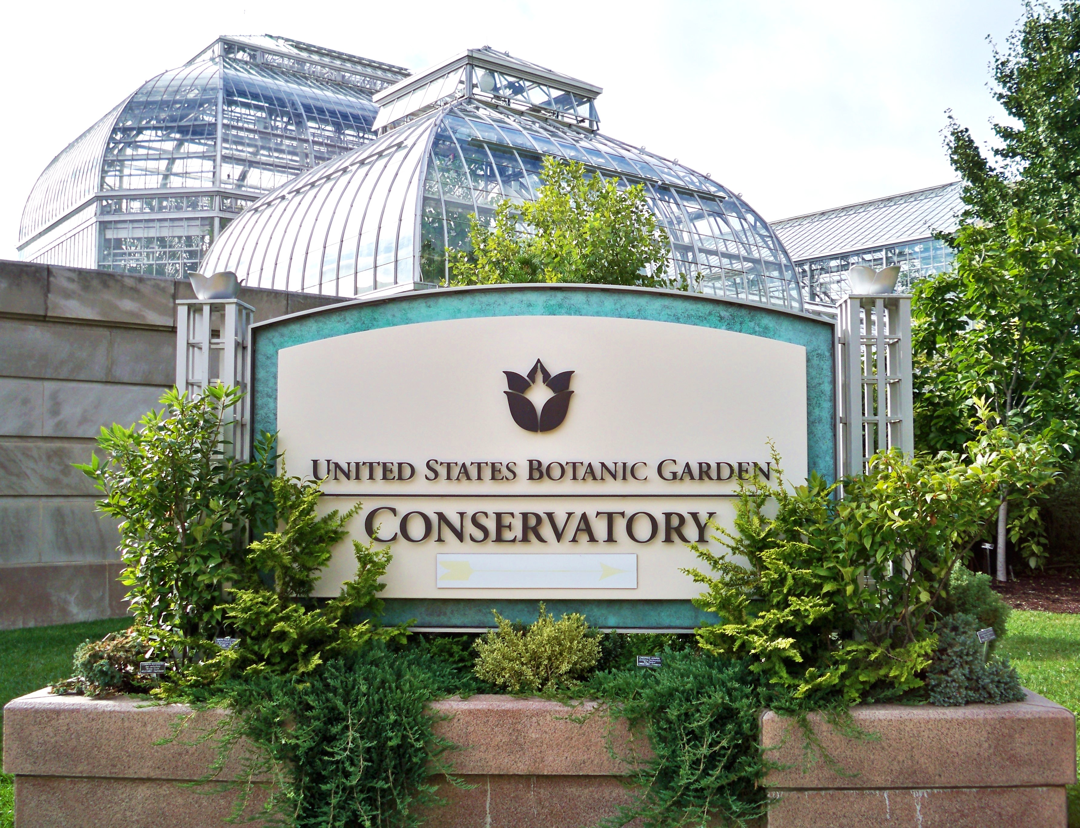 The entry sign to the US Botanic Gardens by the Capitol.